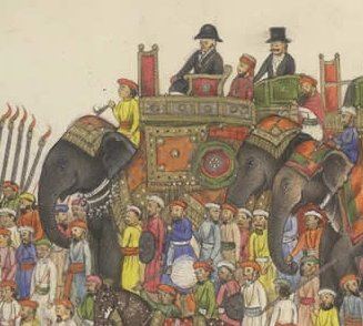 Sir Thomas Theophilus Metcalfe, 4th Baronet on a picture from the Delhi Book (see a description of the book on the website of the British Library]). Metcalfe is the man seated on the red chair at the front.